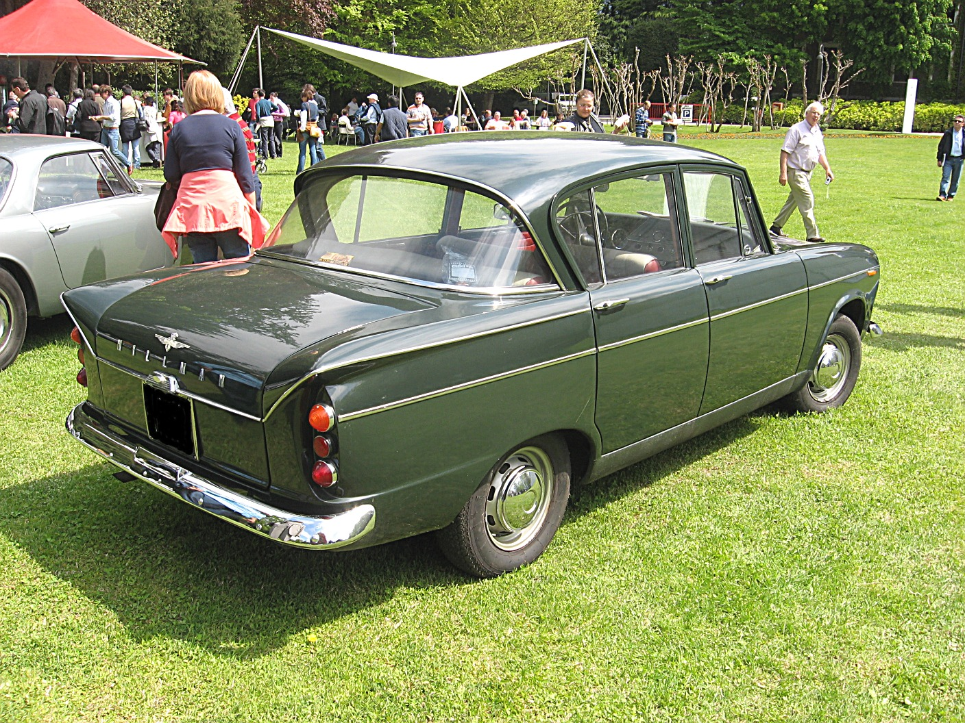 Subject: 1962 Hillman Super Minx Date:April 27th, 2008 Event:Concorso d’Eleganza”Villa d’Este” 2008 Place/Country: Cernobbio (CO), Italy I release all rights in the public domain.